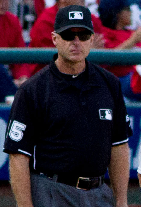 MLB umpire Ed Hickox – St. Louis Cardinals at Washington Nationals. NLDS Game 3. October 10, 2012.